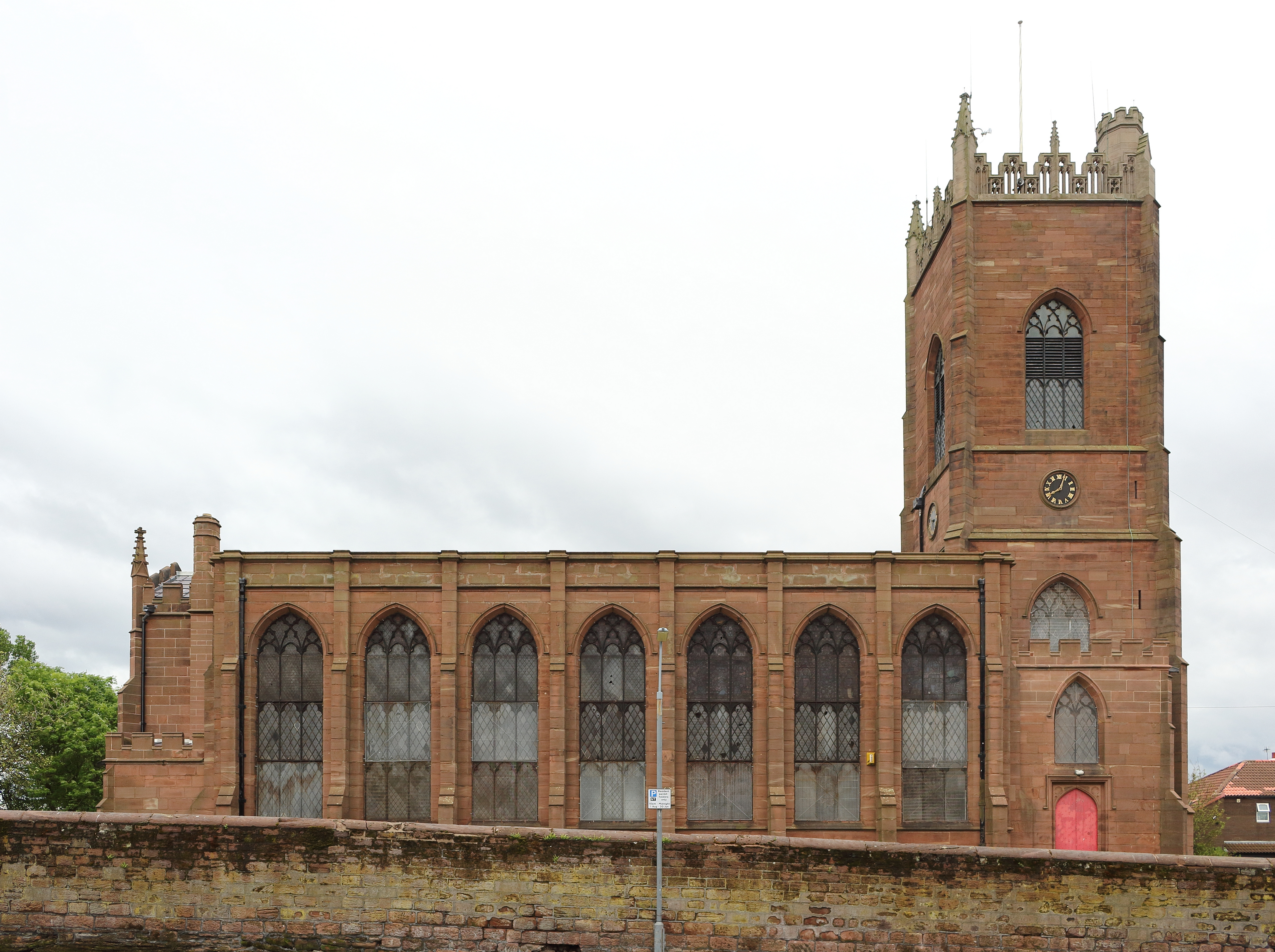 Grade I listed church in Everton, Liverpool, north side.